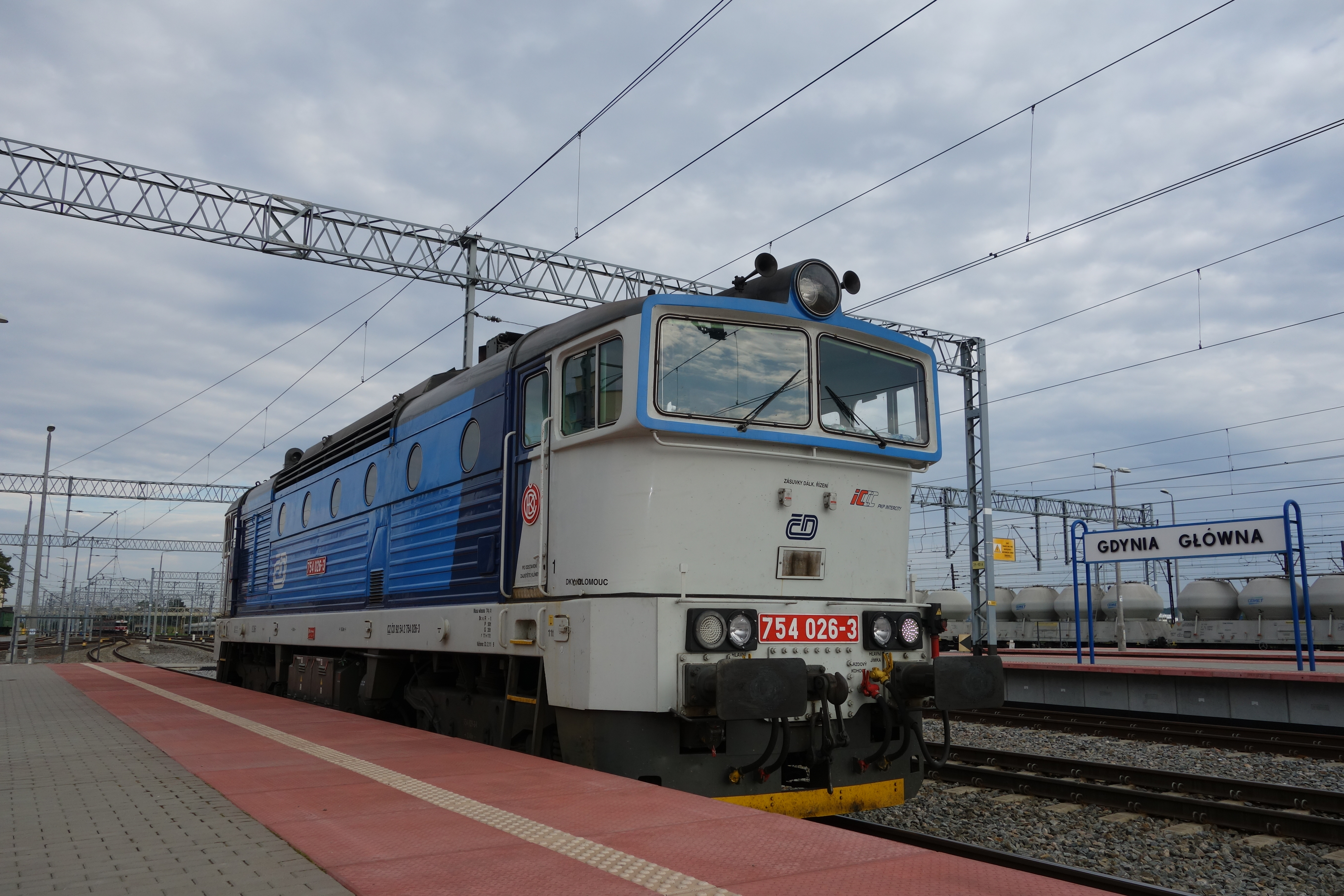 Gdynia Główna - lokomotywa ČD Class 754 This photo was taken during Railway Wikiexpedition 2014 set up by Wikimedia Polska Association in cooperation with Fundacja Grupy PKP.You can see all photographs in category Wikiekspedycja kolejowa 2014.